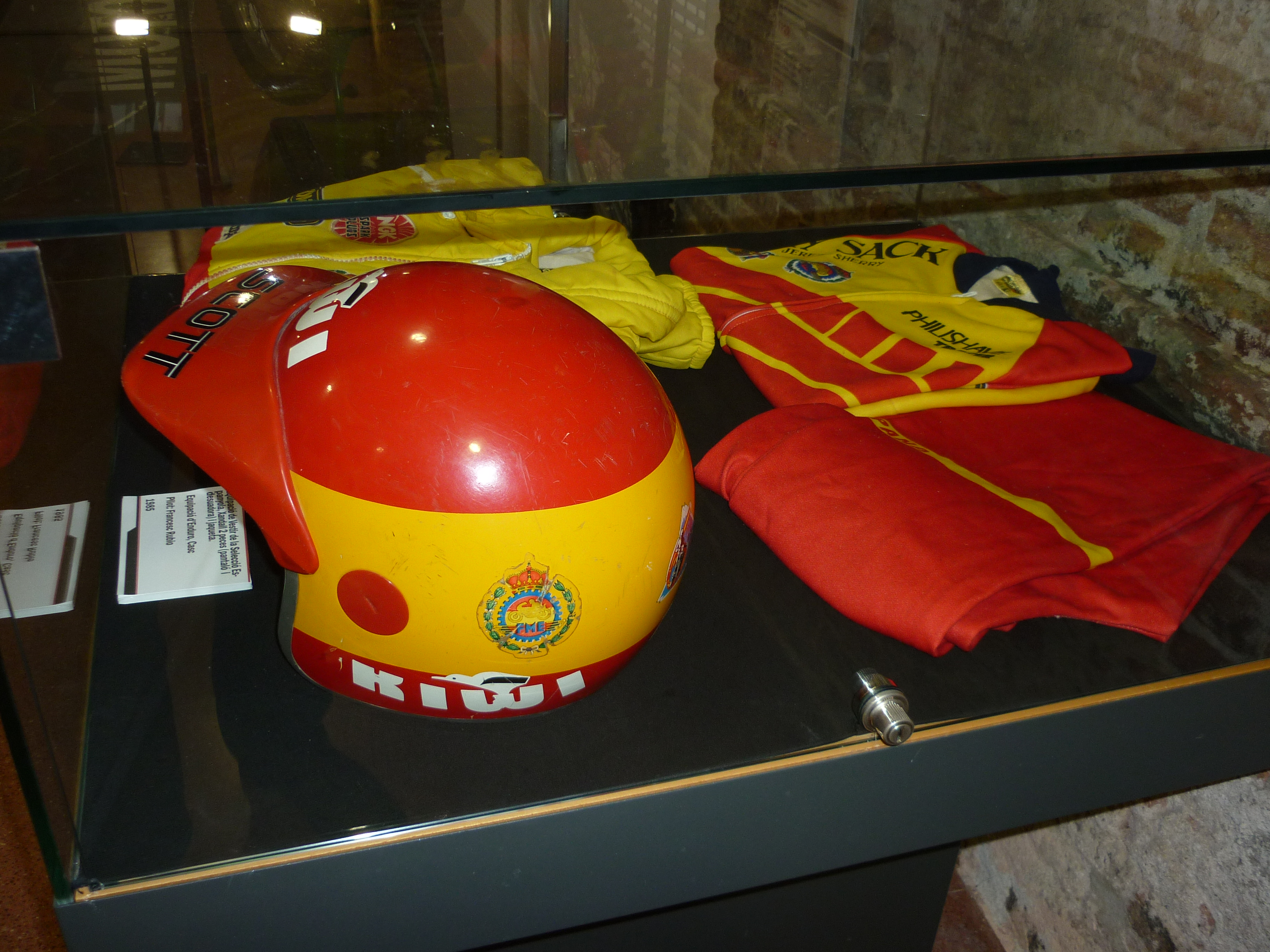 The equipment that wore Francesc Rubio at 1985 ISDE in Alp (Catalonia), as a member of the spanish team